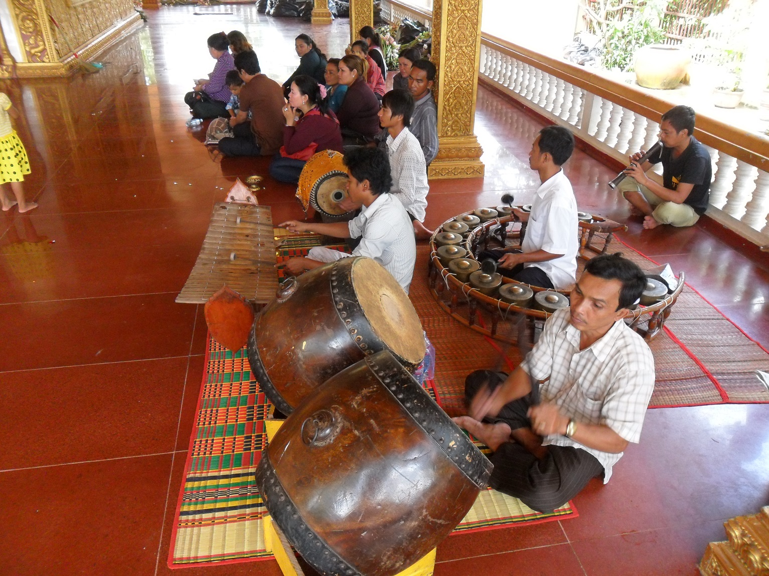 Traditional musicians at a temple, Siem Reap, Cambodia. The instruments are: (front row starting from foreground) skor thom, roneat ek xylophone, samphor; (middle) kong von thom or kong toch; (back row) sralai